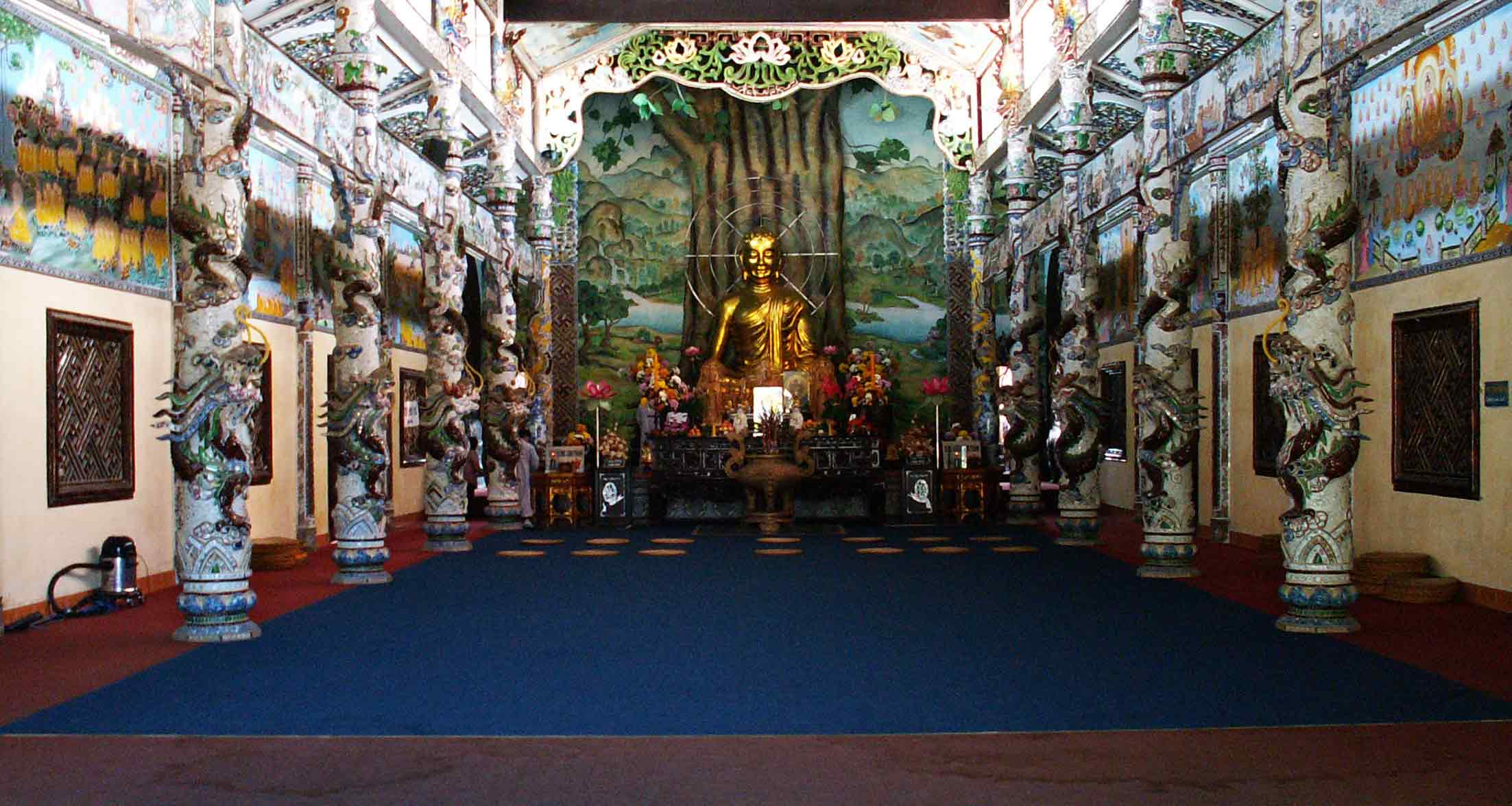 Linh Phuoc Pagoda